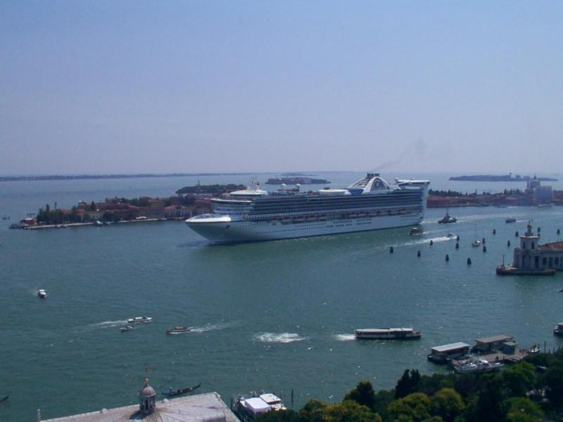 from he:תמונה:50799305.jpg taken by he:משתמש:Daniel Ventura near san marco 2004.